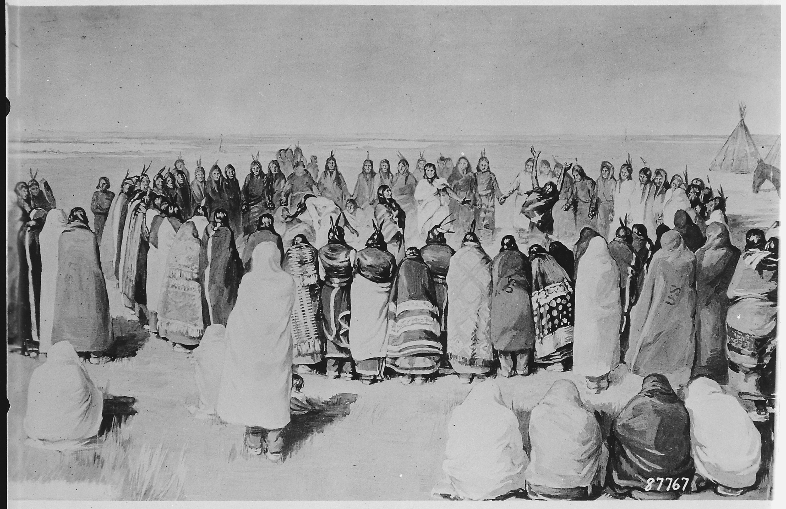 General notes: Artwork based on photographs by James Mooney